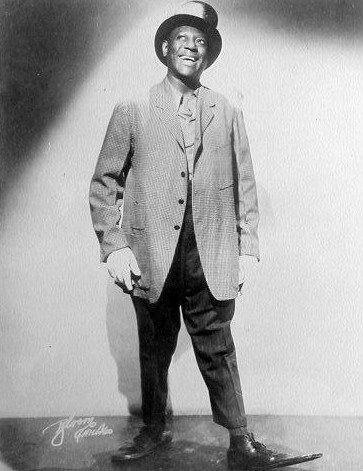 Photo of comedian Dusty Fletcher.